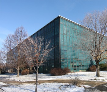 Former US Navy Gunnery School 1954-2005, Naval Station Great Lakes Building 521, demolished 2012. Designed by Bruce Graham (co-designer of the former Sears Tower and John Hancock Center) of the Chicago office of Skidmore, Owings & Merrill